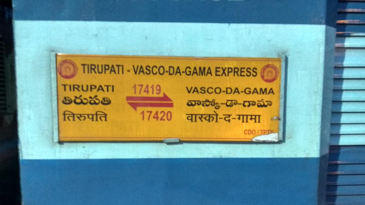 standing our side Tirupati Station